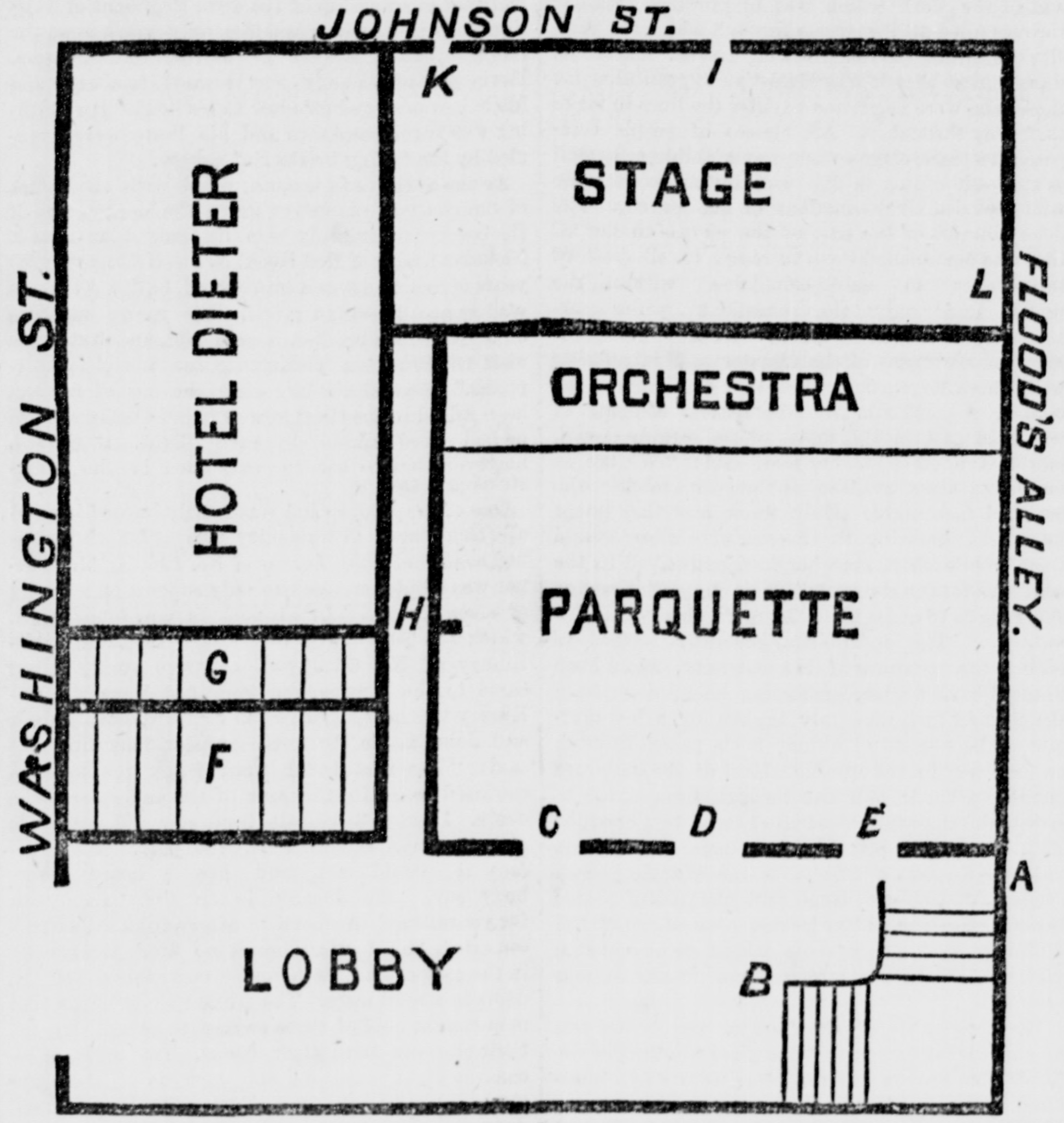 Floor Plan of the Brooklyn Theatre. Published on Thursday, 07-December-1876 in the New York Tribune